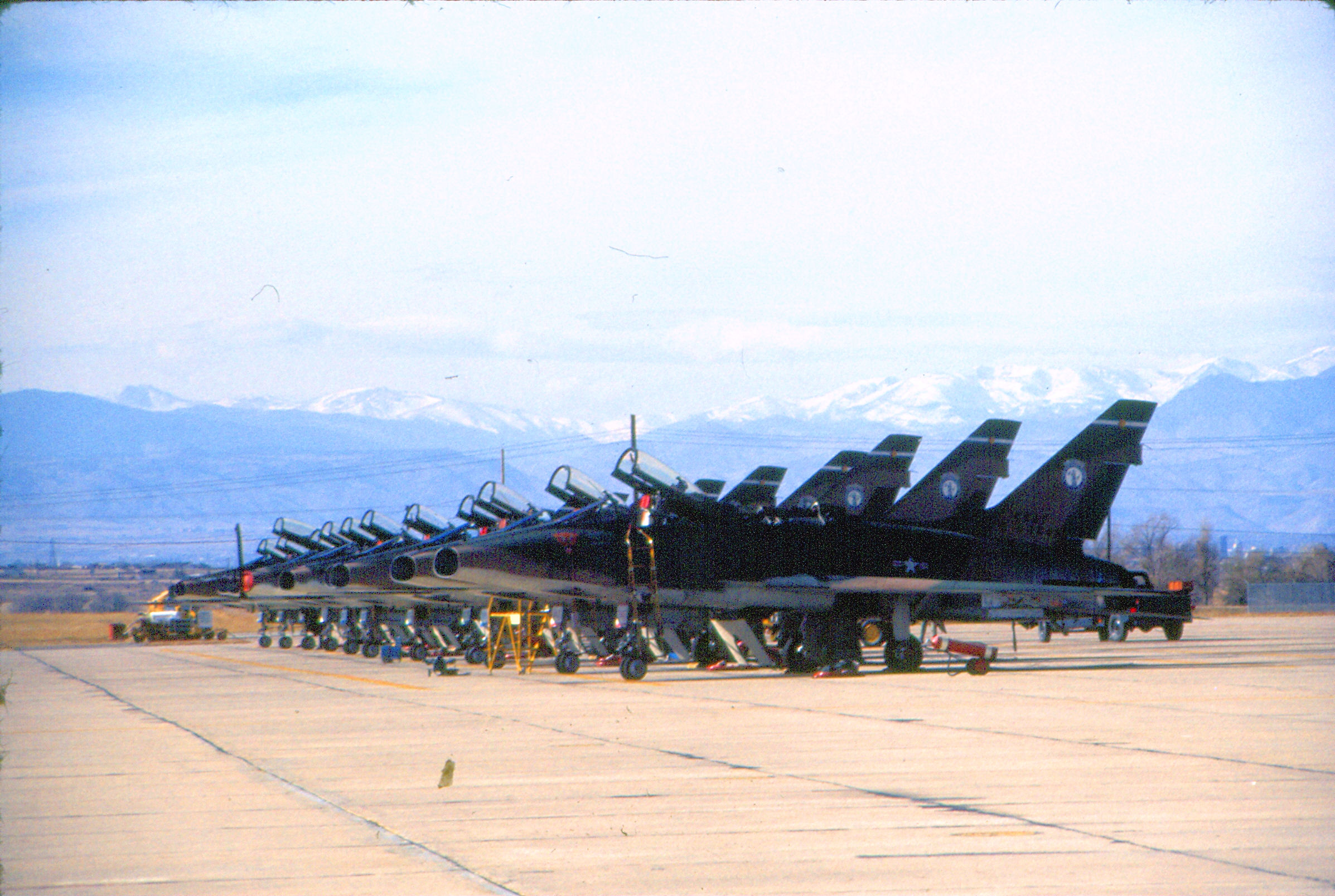 View of the flightline of U.S. Air Force North American F-100D Super Sabres, from the 120th Tactical Fighter Squadron, 140th Fighter Wing, Colorado Air National Guard, at Buckley Air National Guard Base in Aurora, Colorado (USA), in April 1974.